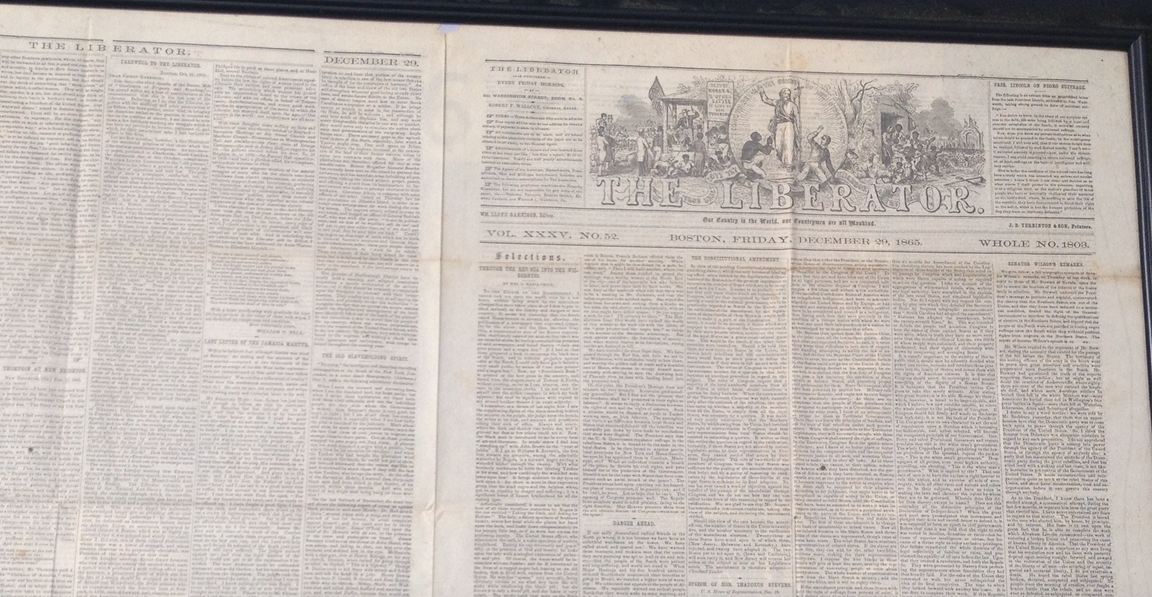 Garrison, slaves, and likeminded friends celebrate the ratification of the 13th Amendment (December 29,1865 - Vol. XXX. No 52) Surviving copy of the closing of the William Lloyd Garrison's "Liberator." The American newspaper was donated to the "Humanitarian," M.M. P.hd